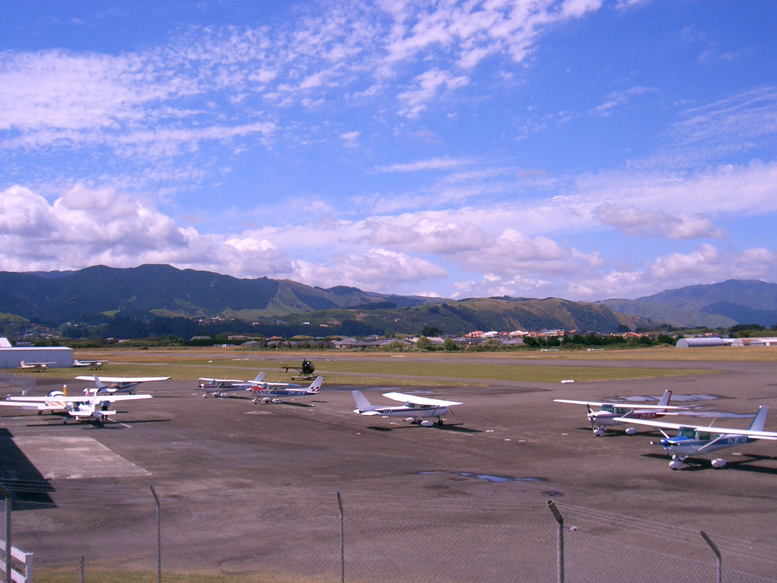 Ramp of Kapiti Coast Airport (Paraparaumu Airport at this time)